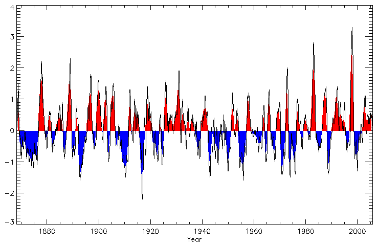 NSO index USING Japan Meteorological Agency data. Units: ºC. Initial data is monthly SST anomalies averaged for the area 4N to 4S and 150W to 90W, with a 5-month running mean of the data (plotted in black). Also plotted is 13-month running mean of this; filled blue when below 0 and red above. Above 0 (red) represents El Nino conditions. Below 0 (blue) represents La Nina conditions. Data before 1949 is based on reconstruction; after, on observation.